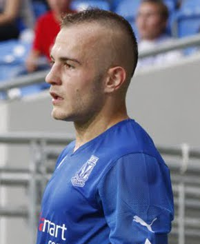 Hungarian football player Gergő Lovrencsics during Lech Poznań match against Zhetysu Taldykorgan in Europa League qualifiers